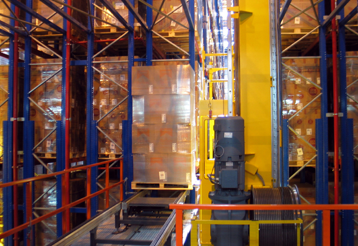 stacker crane automatic warehouse